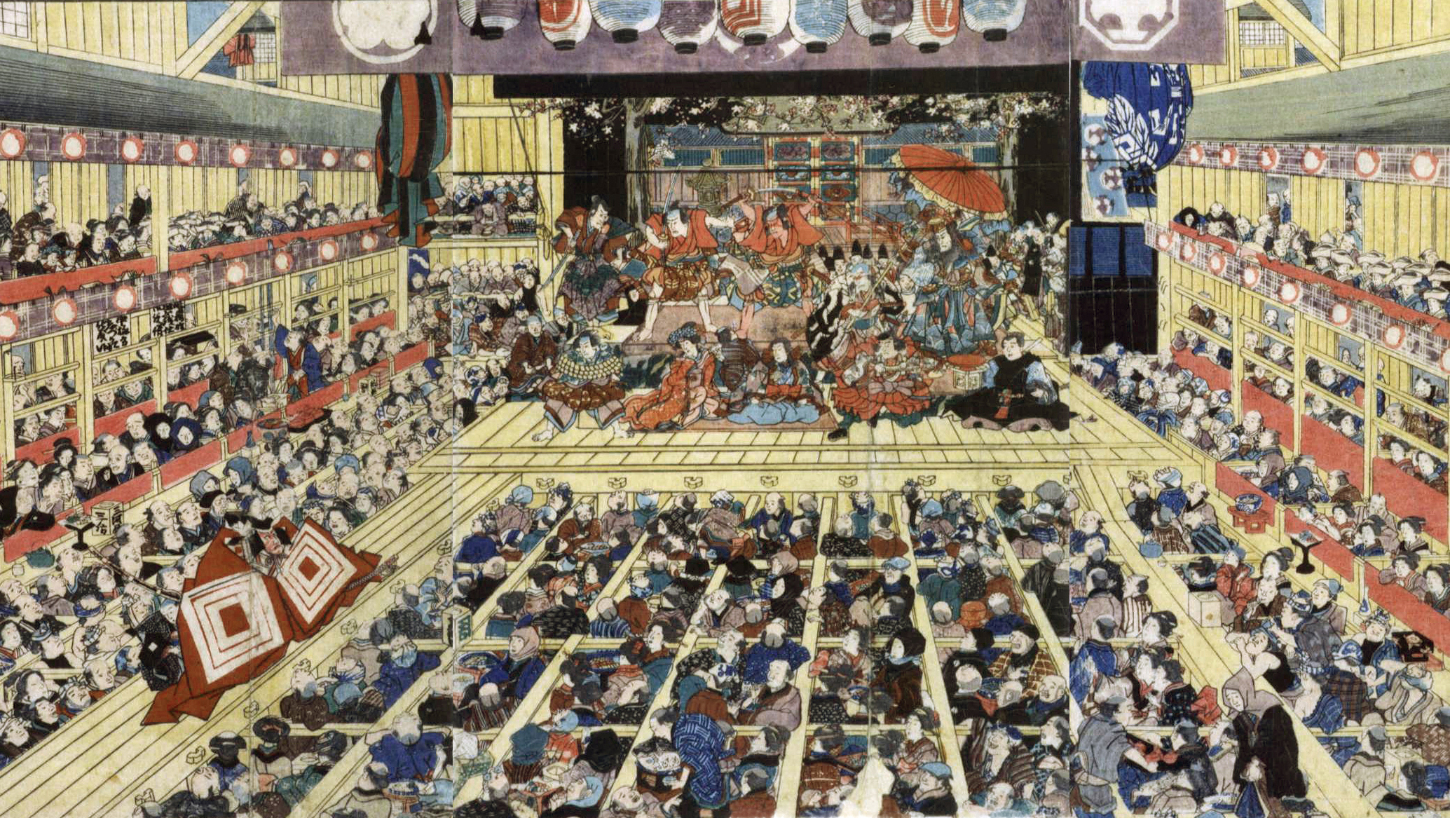 Odori-keiyō Edo-e no Sakae by Toyokuni Utagawa III, depicting the July 1858 production of Shibaraku.